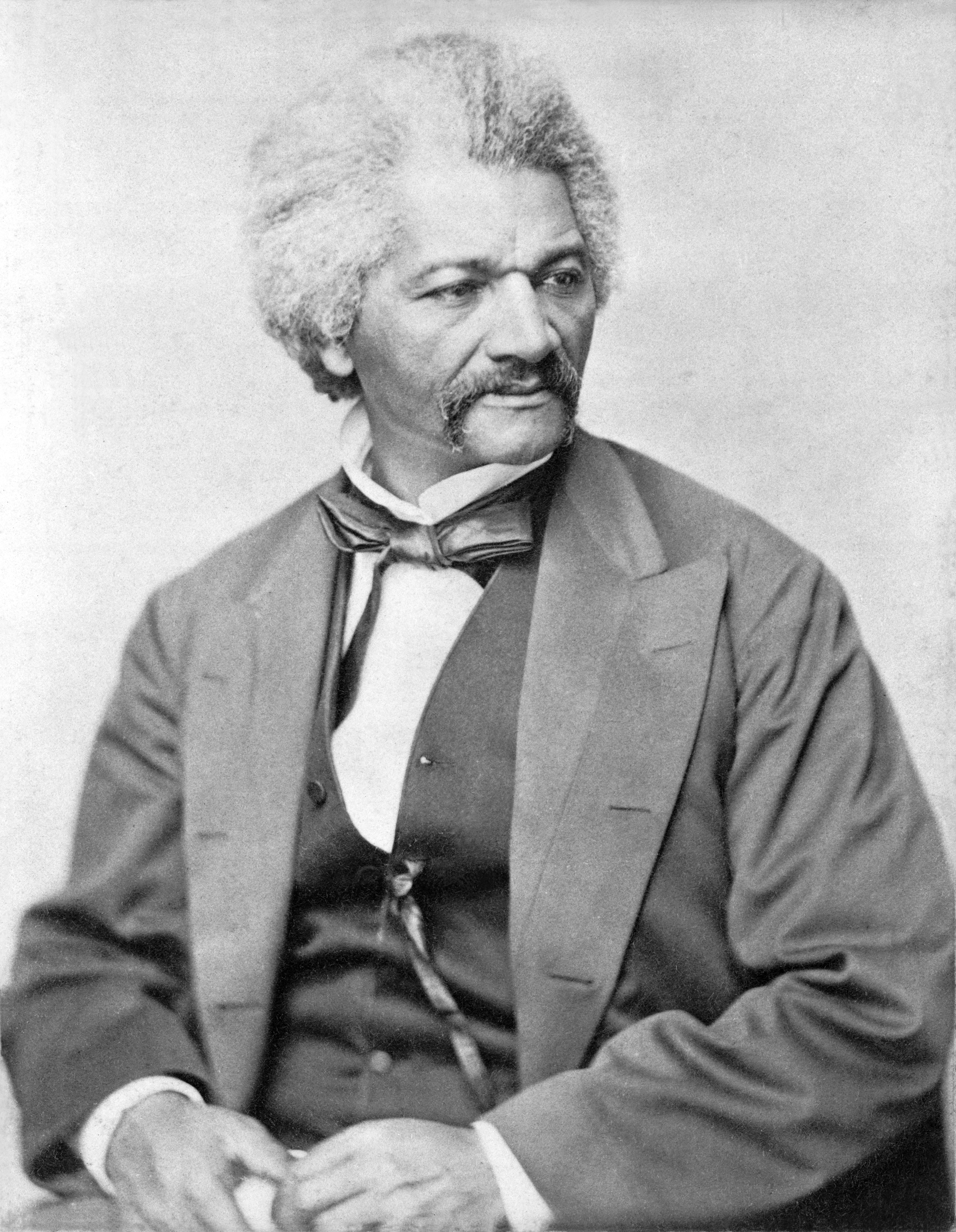 Frederick Douglass (1818-1895), head-and-shoulders portrait, facing right. Albumen process, scanned from the negative by LOC.